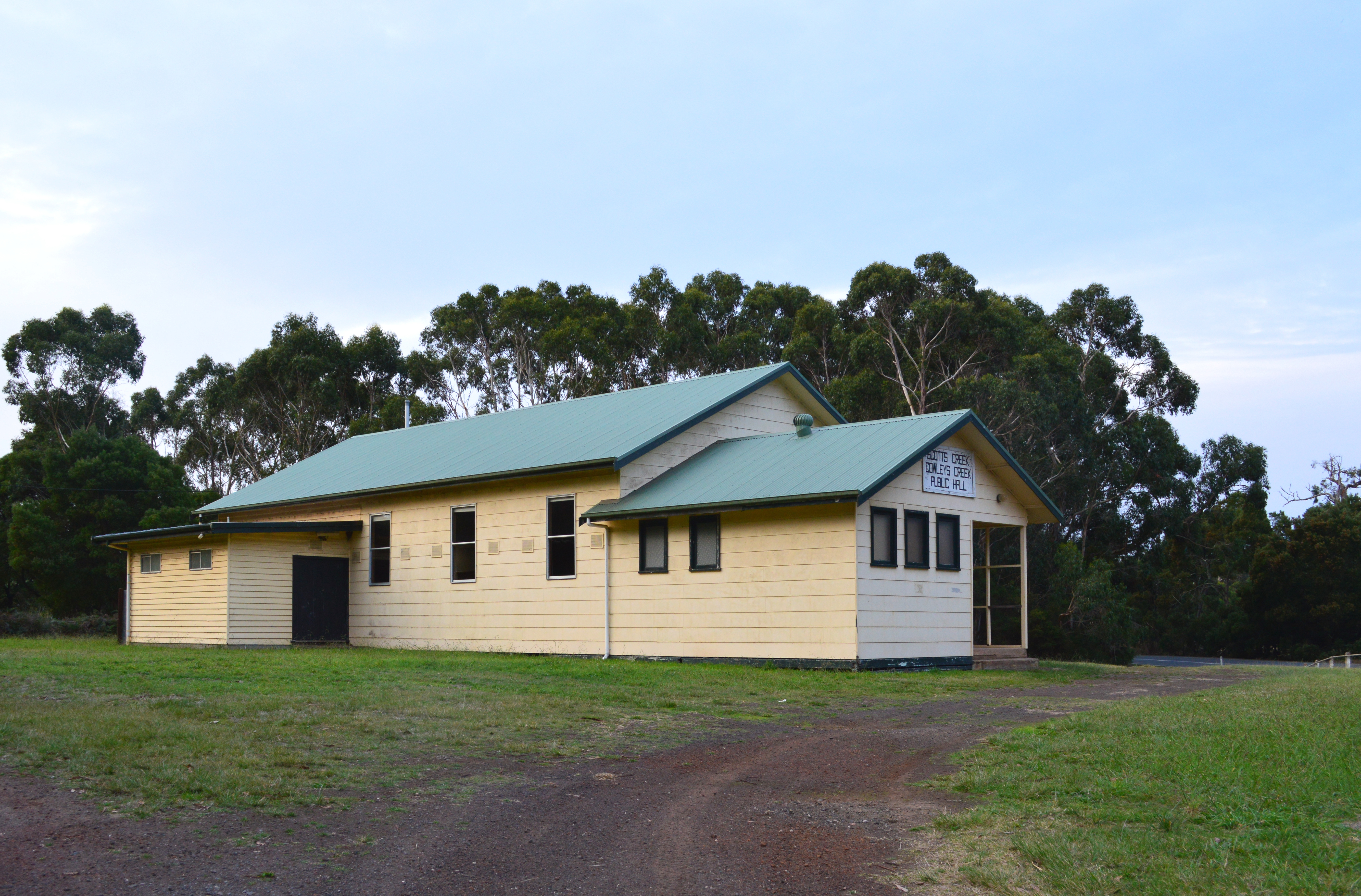 Memorial hall in Scotts Creek, Victoria